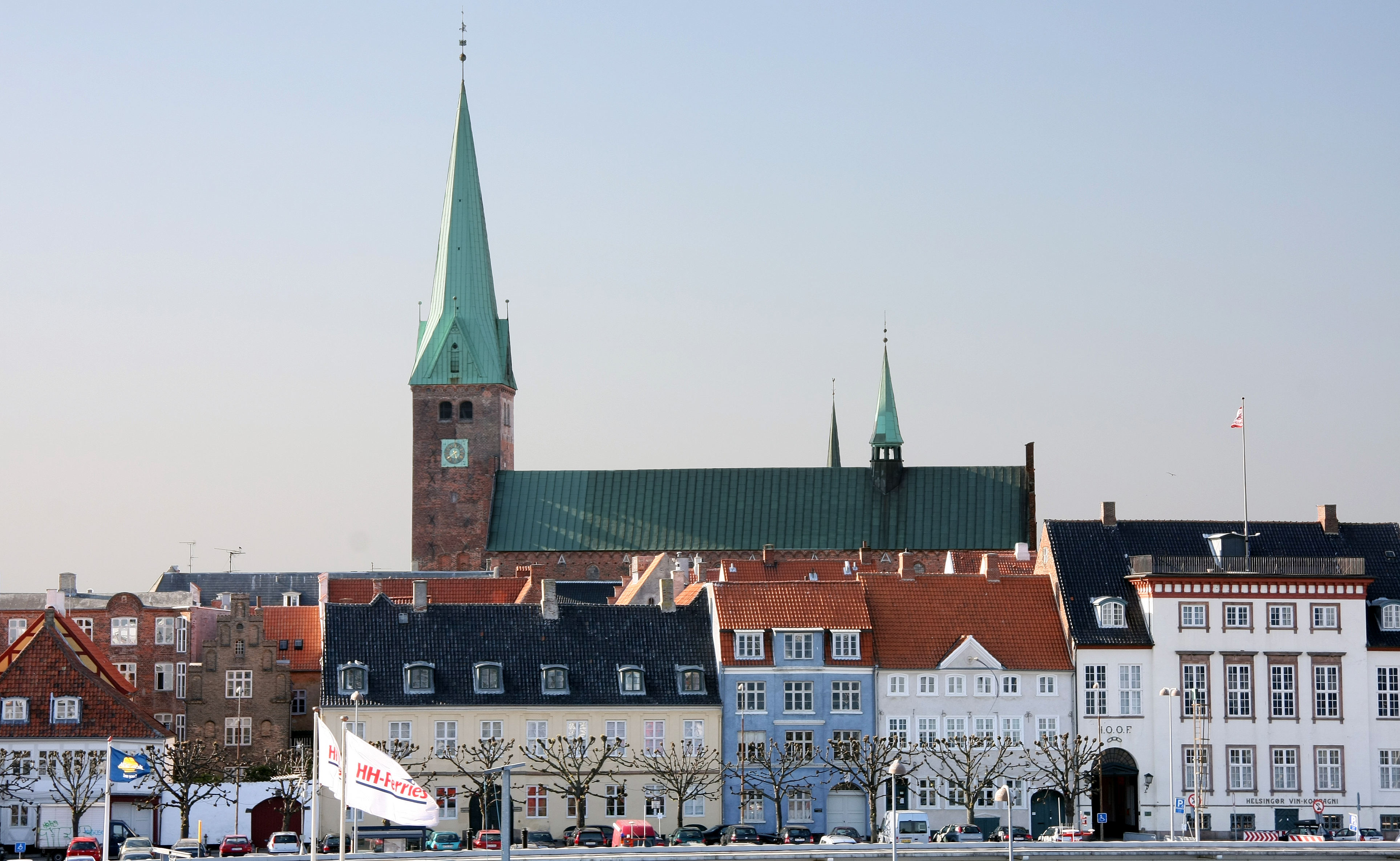 Danish town Helsingør with cathedral seen from the sea